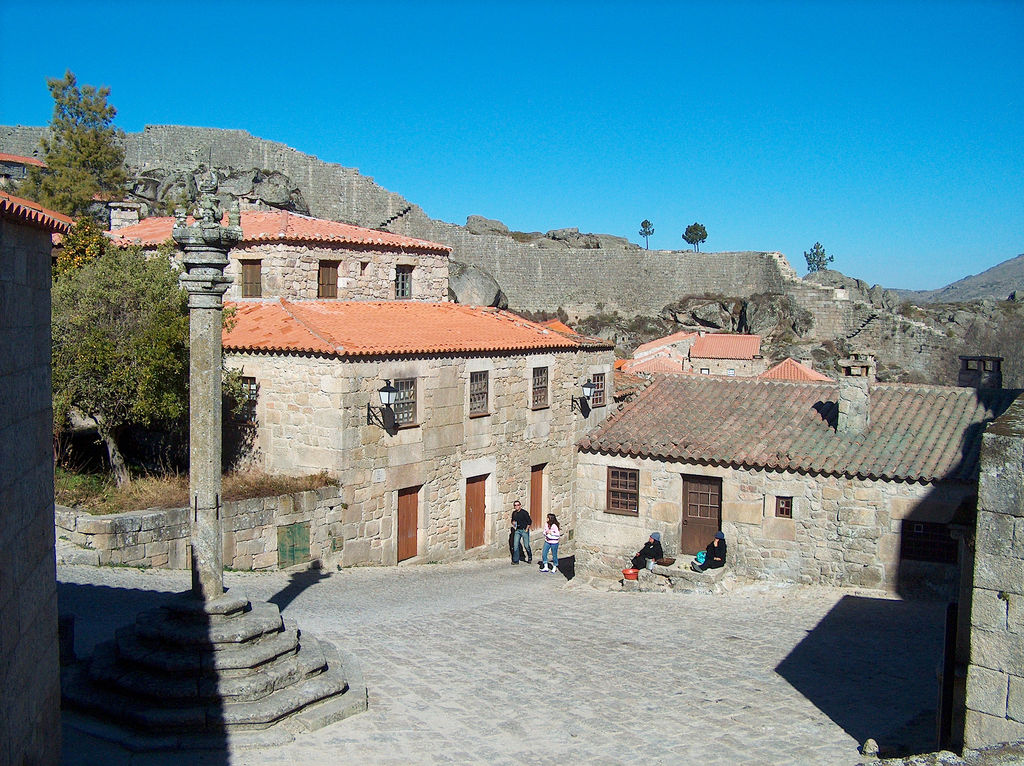 Square and pillory in Sortelha, Portugal